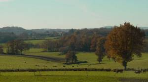 landscape of Creuse (french department)